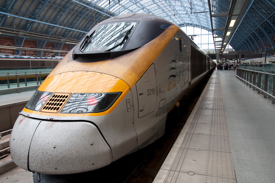 The Eurostar waiting at the platform in St Pancras station